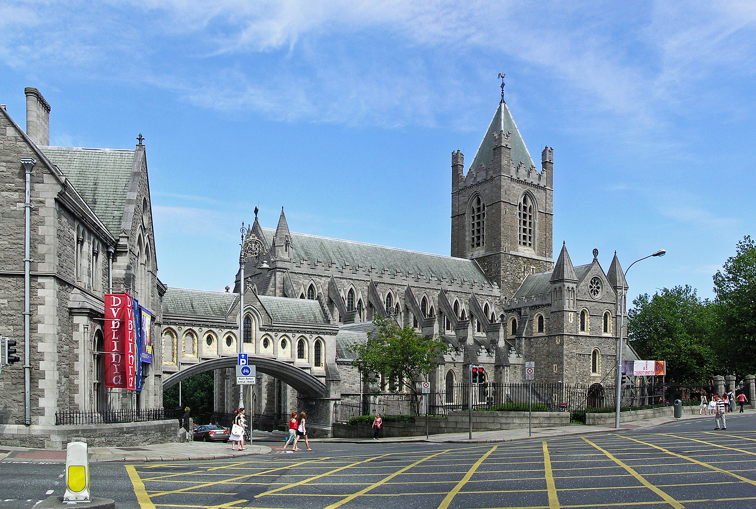 Christ Church Cathedral, Dublin, Ireland